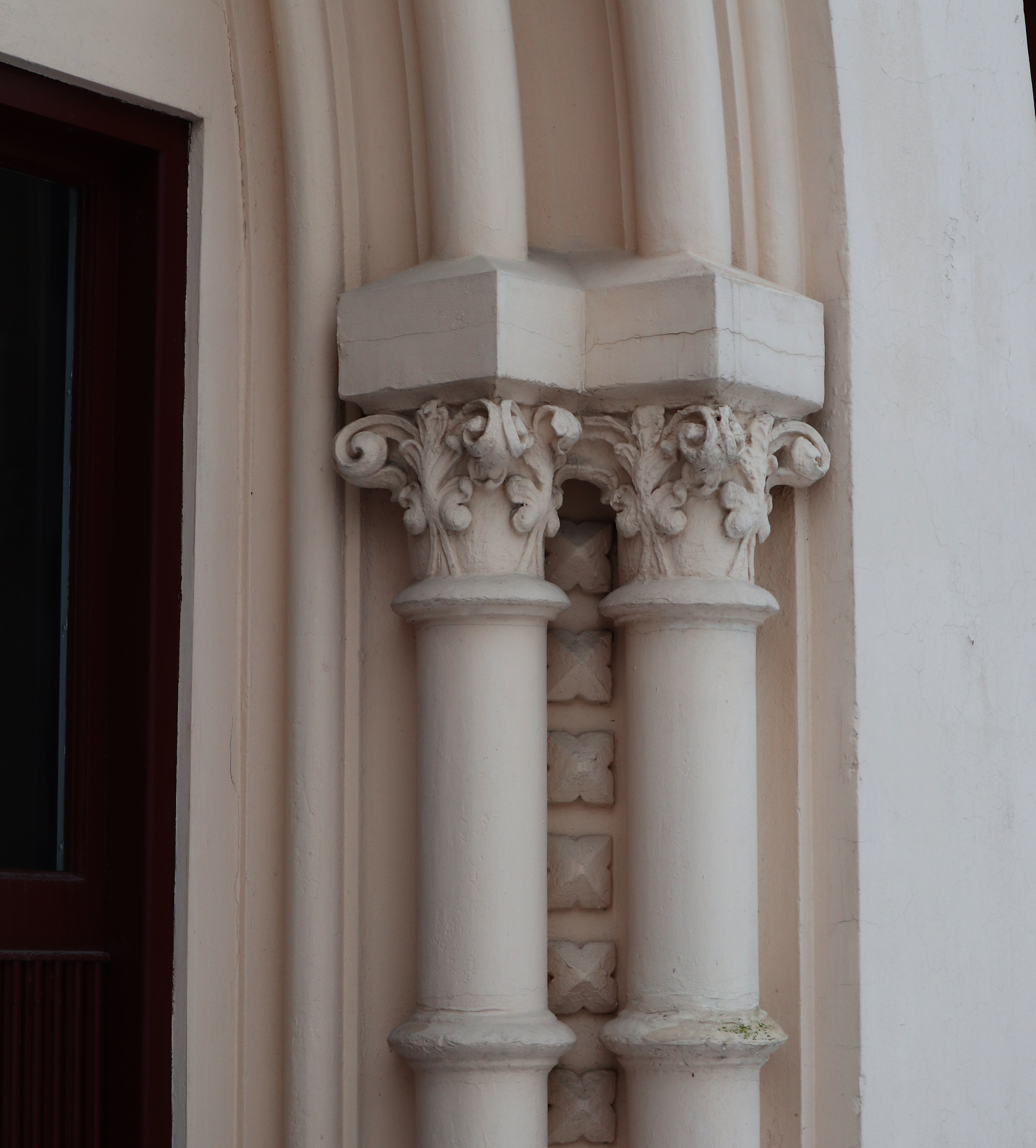 Railway Station Brevik 1895